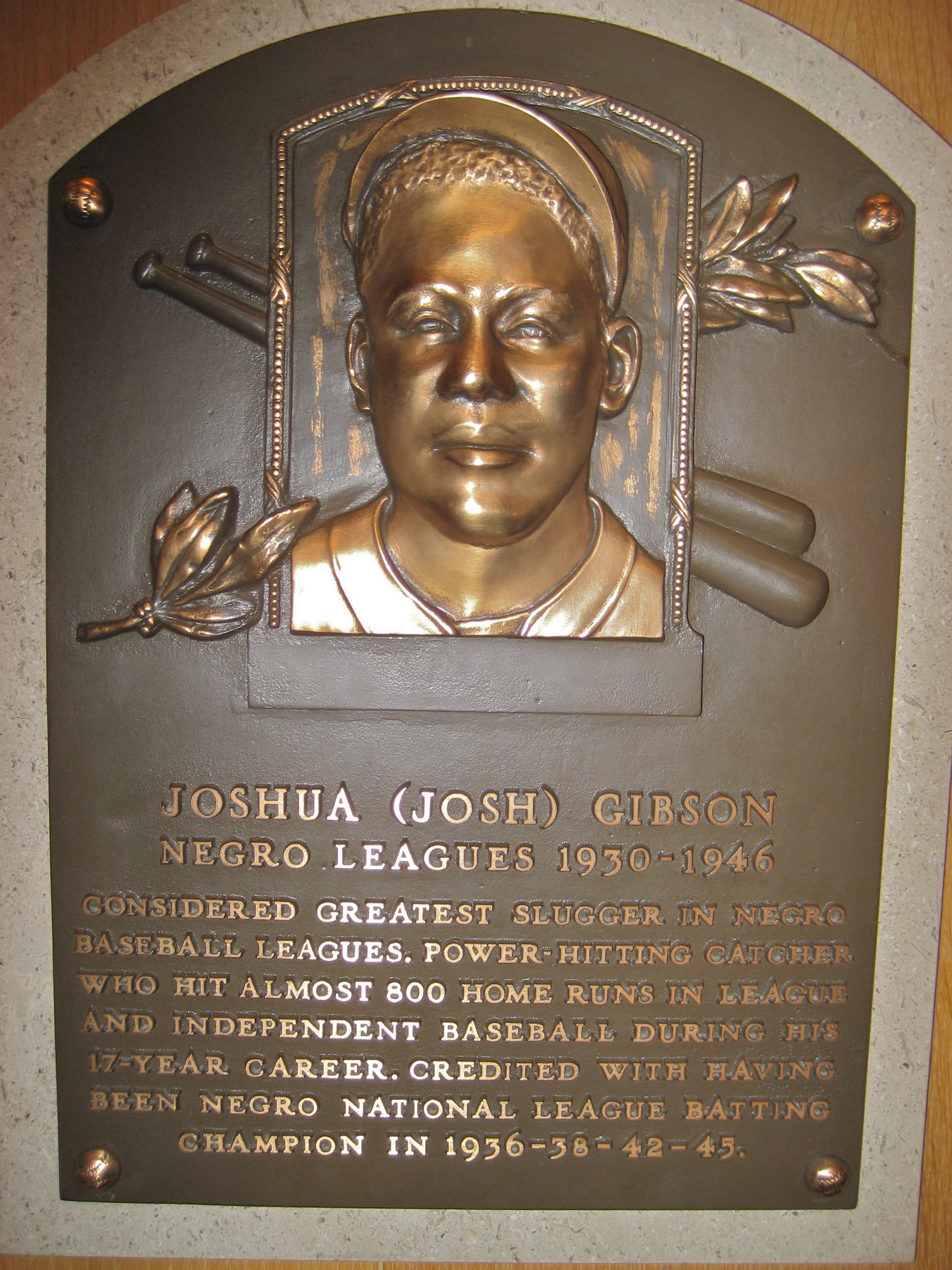 Negro League legend Josh Gibson's plaque at the Baseball Hall of Fame in Cooperstown, New York.